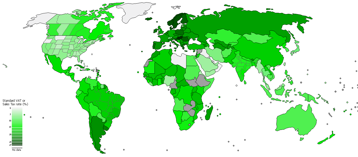 Map shows standard VAT or Sales Tax rate in each country/subdivision.